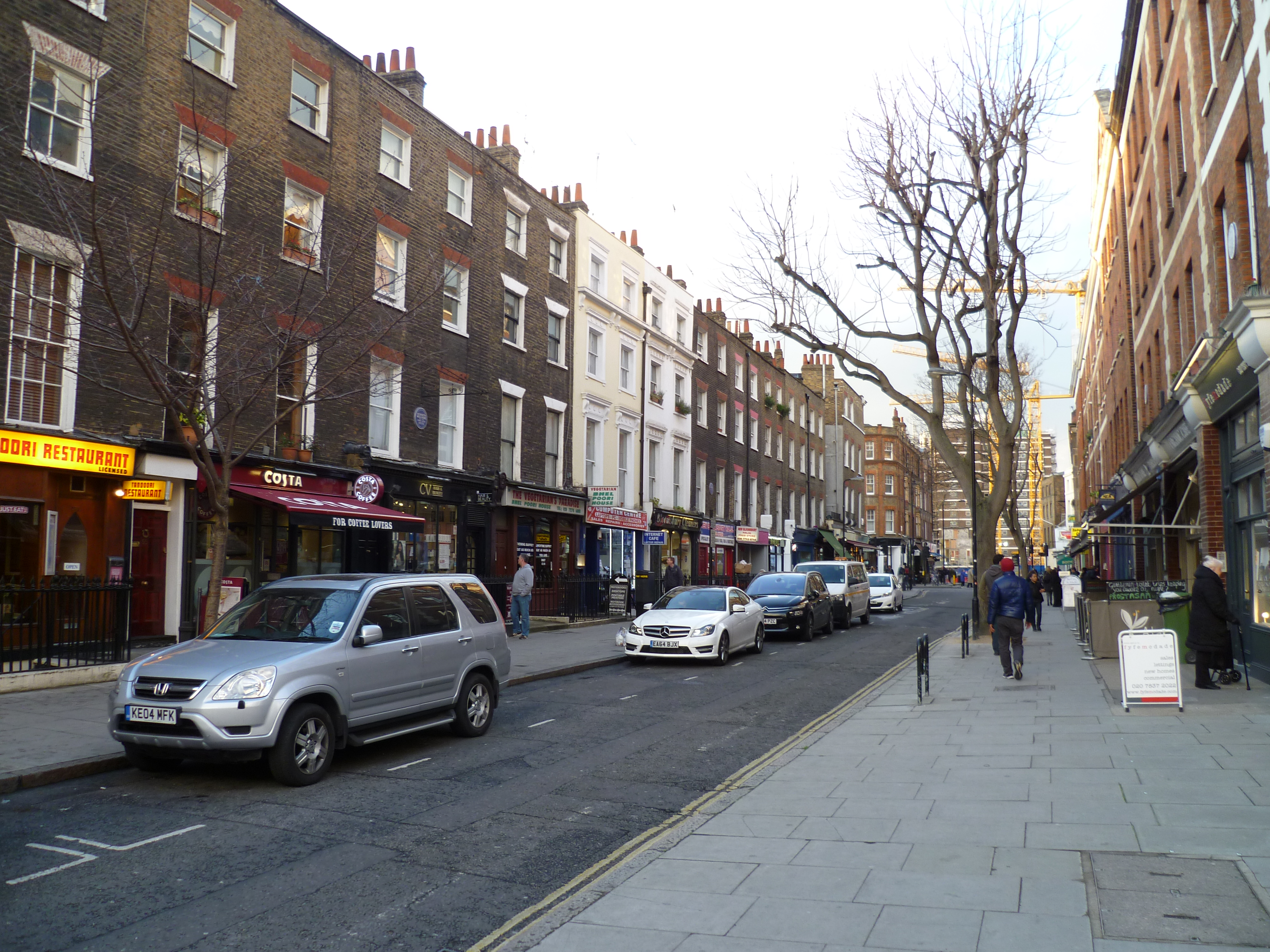 London